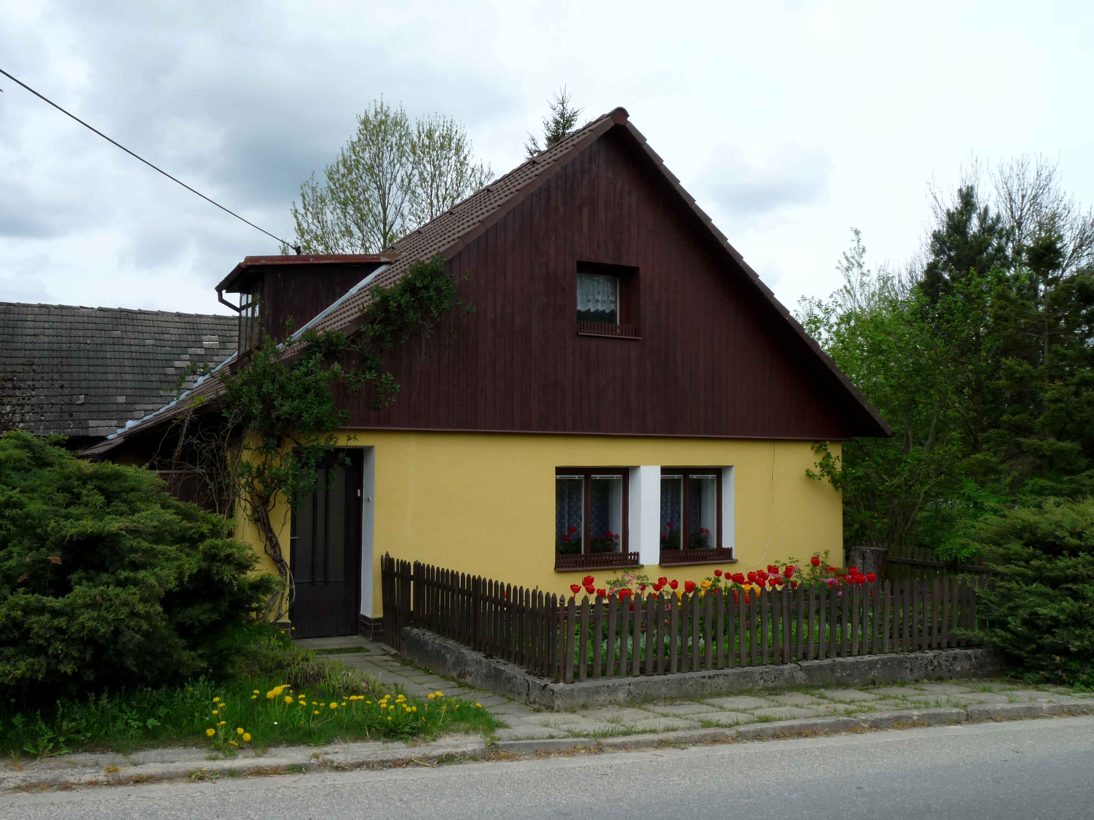 House No 26 in the village of Maršov, Studená, Jindřichův Hradec District, South Bohemian Region, Czech Republic.